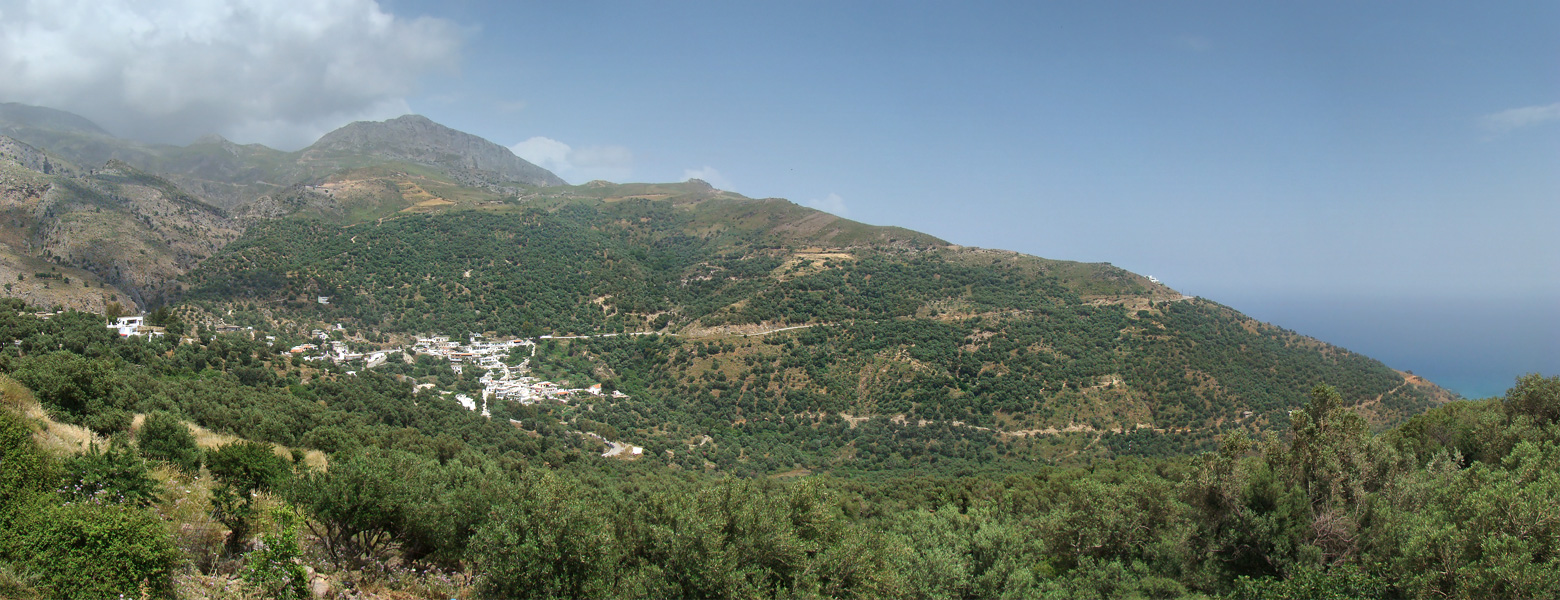 Kato Rodakino, Crete, Greece.